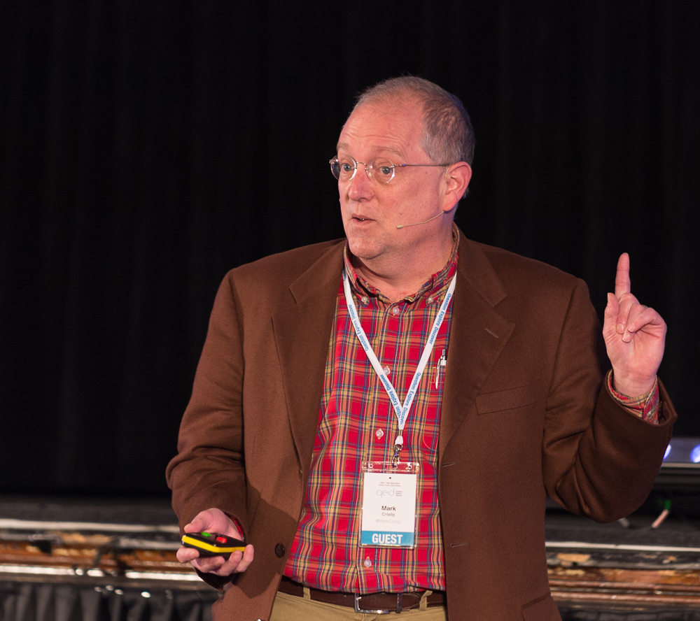 Mark Crislip gives a talk at QED Con 2014 on Supplements, Complementary and Alternative Medicines (SCAMs).